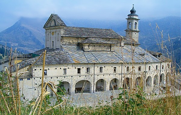 The San Magno sanctuary, Castelmagno, Italy